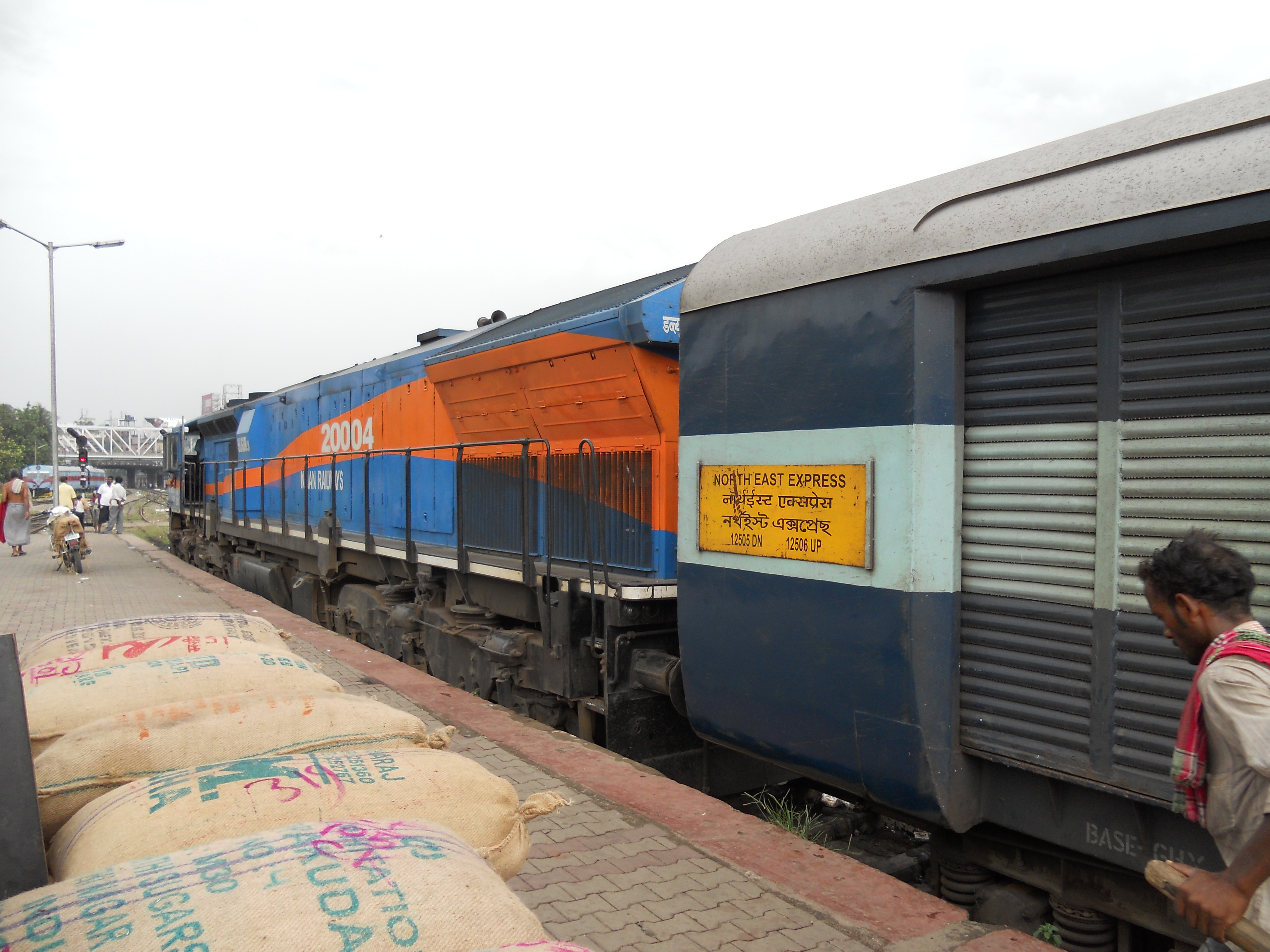 North East Express (12505-12506) with Siluguri WDP-4 locomotive at Guwahati, Assam